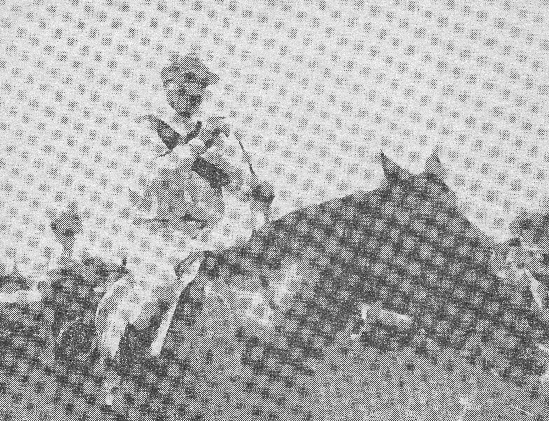 Italian rider Polifemo Orsini.